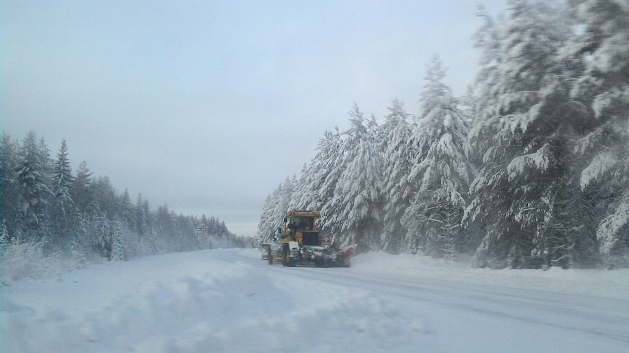 County road Y 346 where it meets Y 977 near Edsbackens återvinningscentral, Junsele parish.